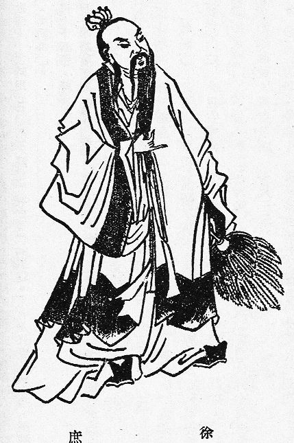 Portrait of the advisor Xu Shu from a Qing Dynasty edition of The Romance of the Three Kingdoms.